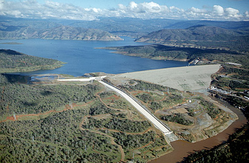 Oroville Dam on the Feather River in Oroville, California, as seen from the air, looking east. The dam itself is on the right side of the photo, the concrete overflow spillway is in the center, and the emergency spillway is the vegetated slope on the left of the photo.